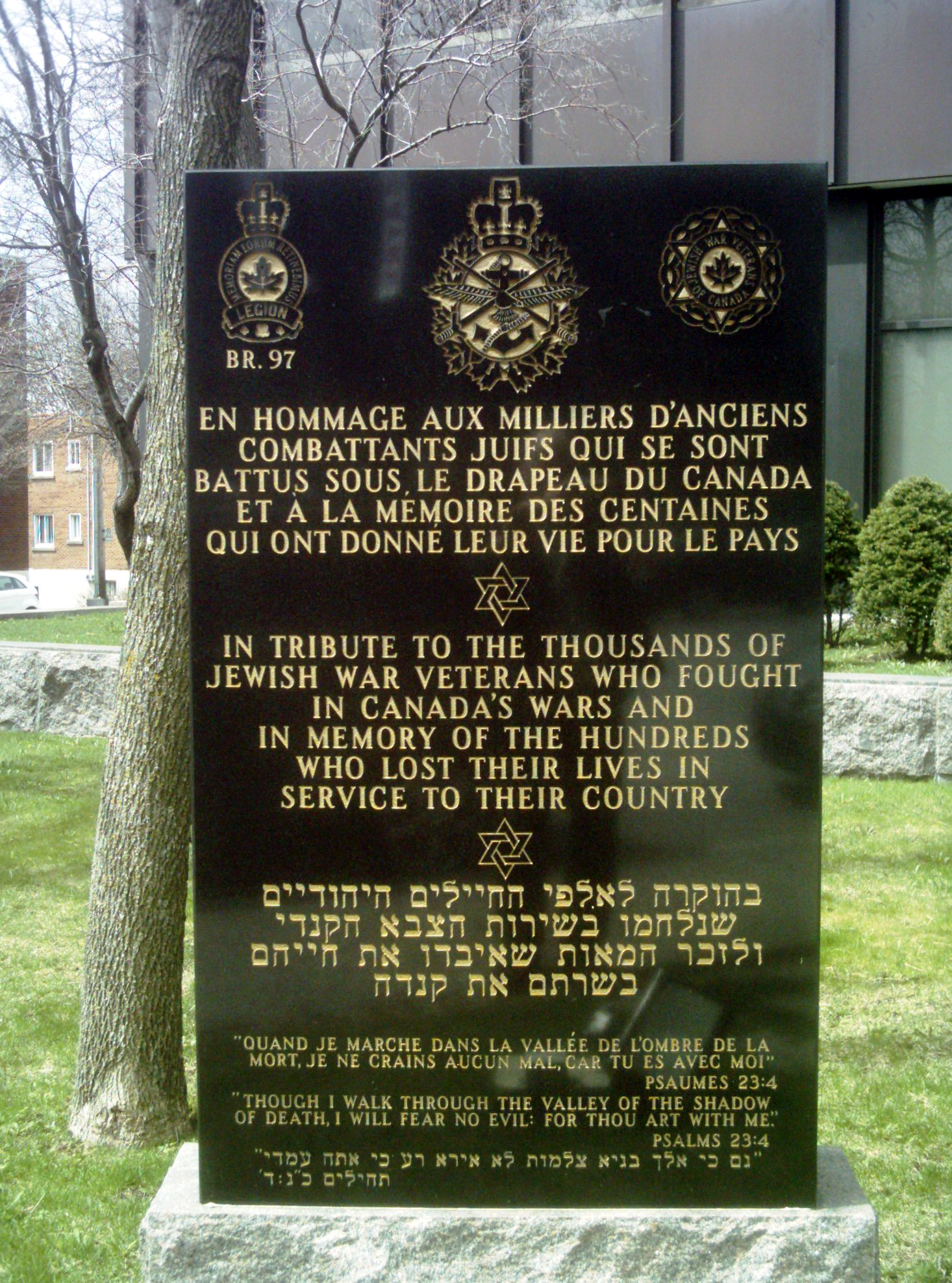 Monument behind the Montreal Holocaust Memorial Museum